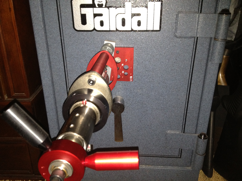 Gardall safe being cracked by Jon Lorquet of Fortress Lock, Safe, & Security using a drill method with a safe drill rig.